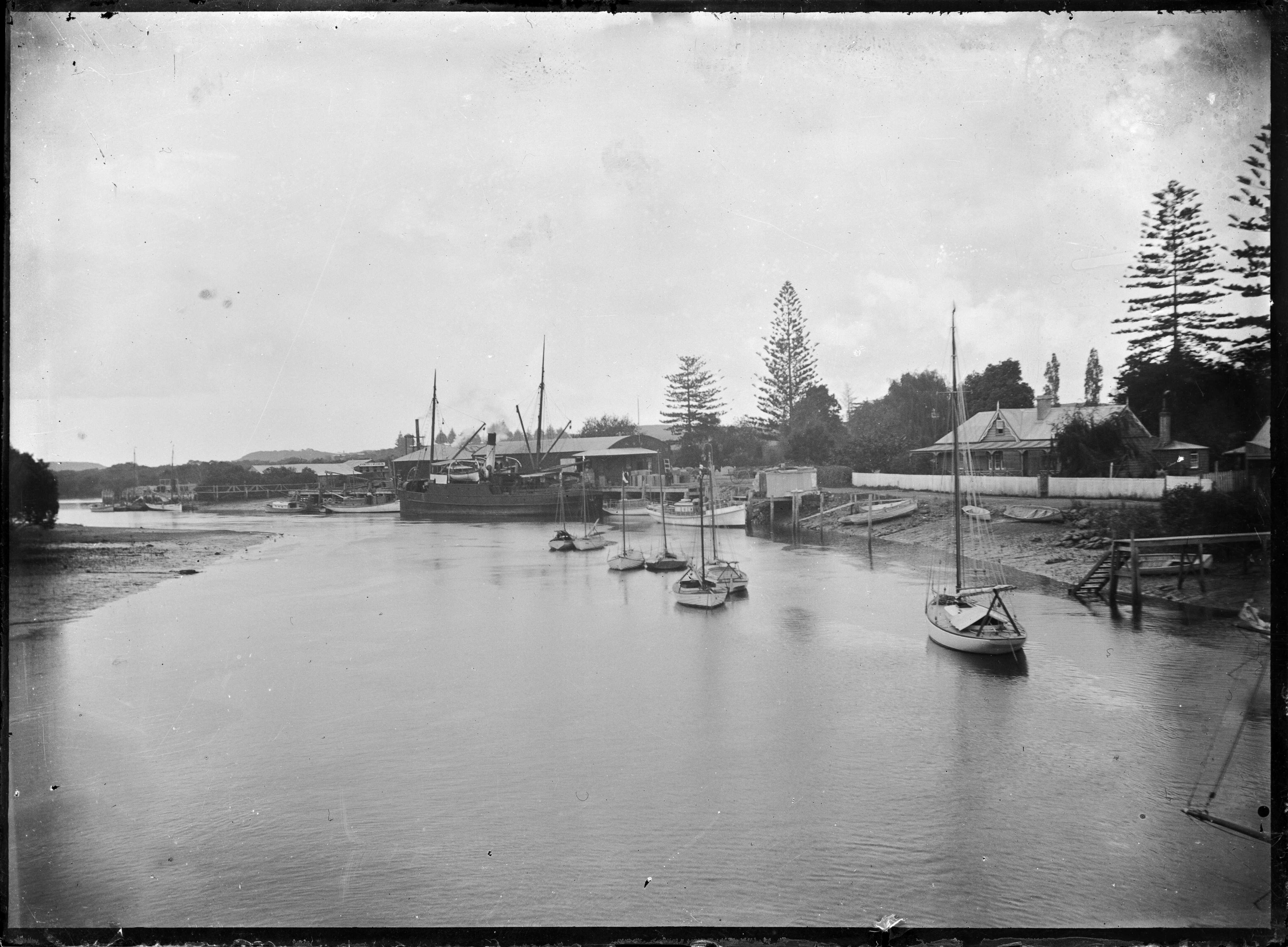 View of the Whangarei Town Wharf with the SS Kanieri, and the Whangarei River (now known as the Hatea River). Taken by Albert Percy Godber in 1911.